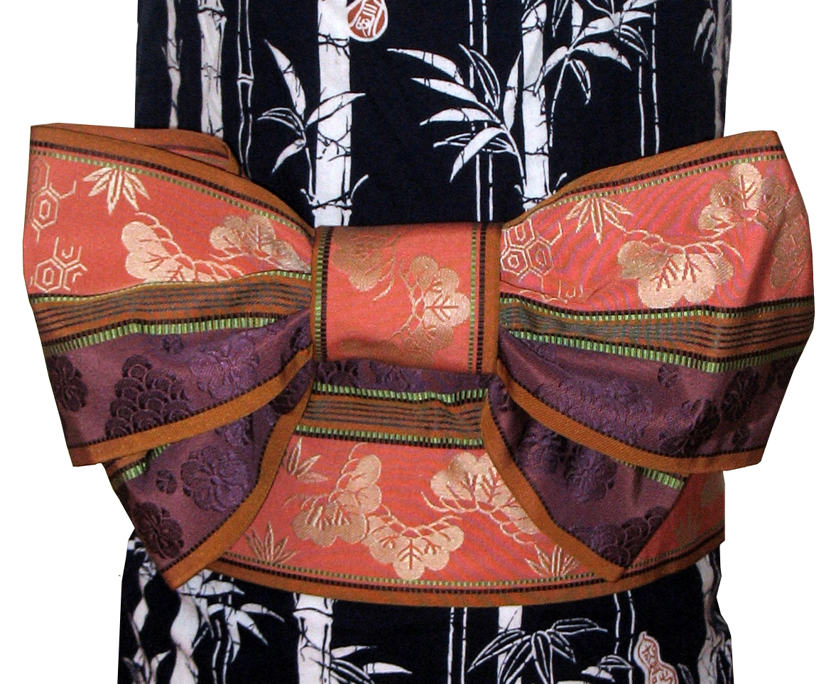 Butterfly/chocho musubi done with a kobukuro obi